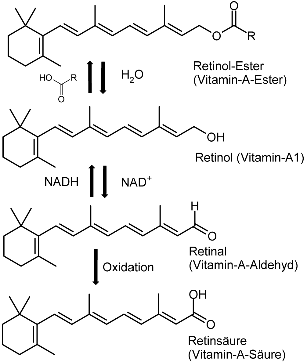 Formation of Retinoic Acid / Darstellung der Retinsäure